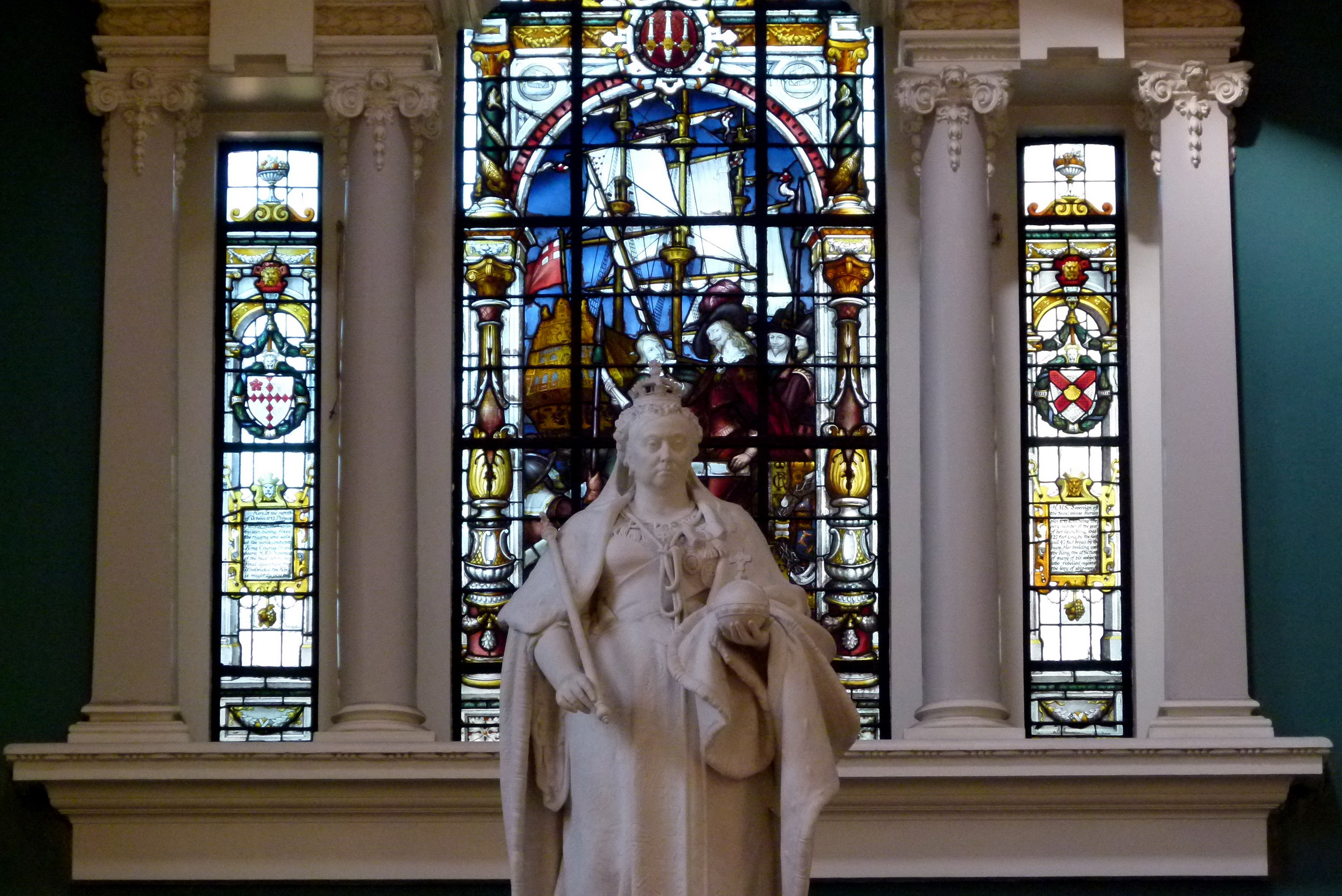 Staircase with statue of Queen Victoria in the entrance hall of Woolwich Town Hall, the main seat of Greenwich Council, Woolwich, South East London. In the background a stained glass window from 1904 by Geoffrey Webb depicting the launching of the ship Henry Grace à Dieu at Woolwich Dockyard in 1514.